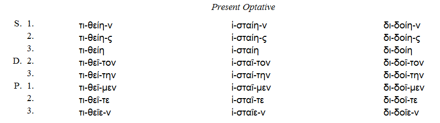 Greek: Present Active Optative of tithemi histemi didomi